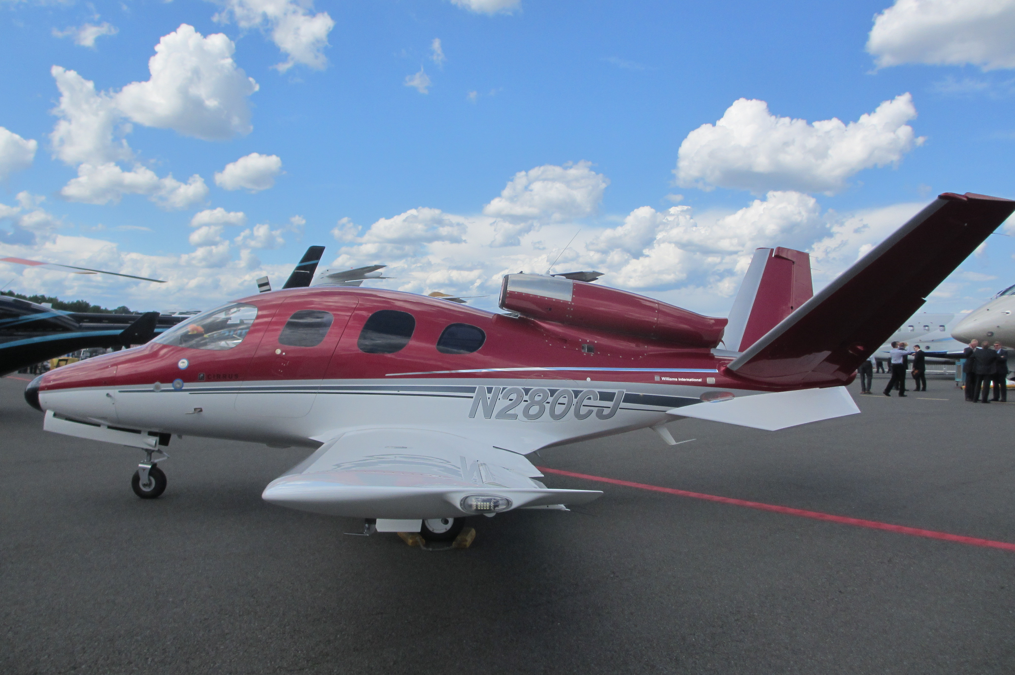 View of a parked Cirrus Vision SF50 facing left